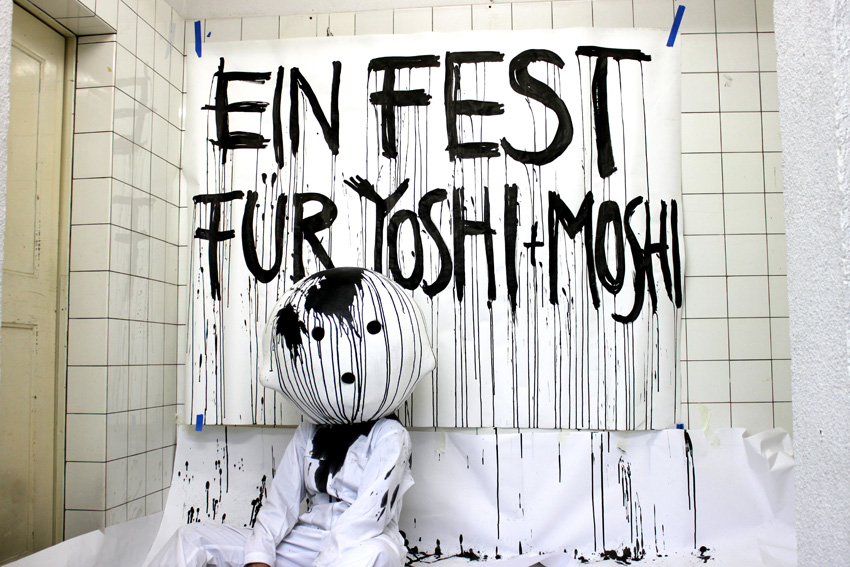 Nina Staehli, artist & performer